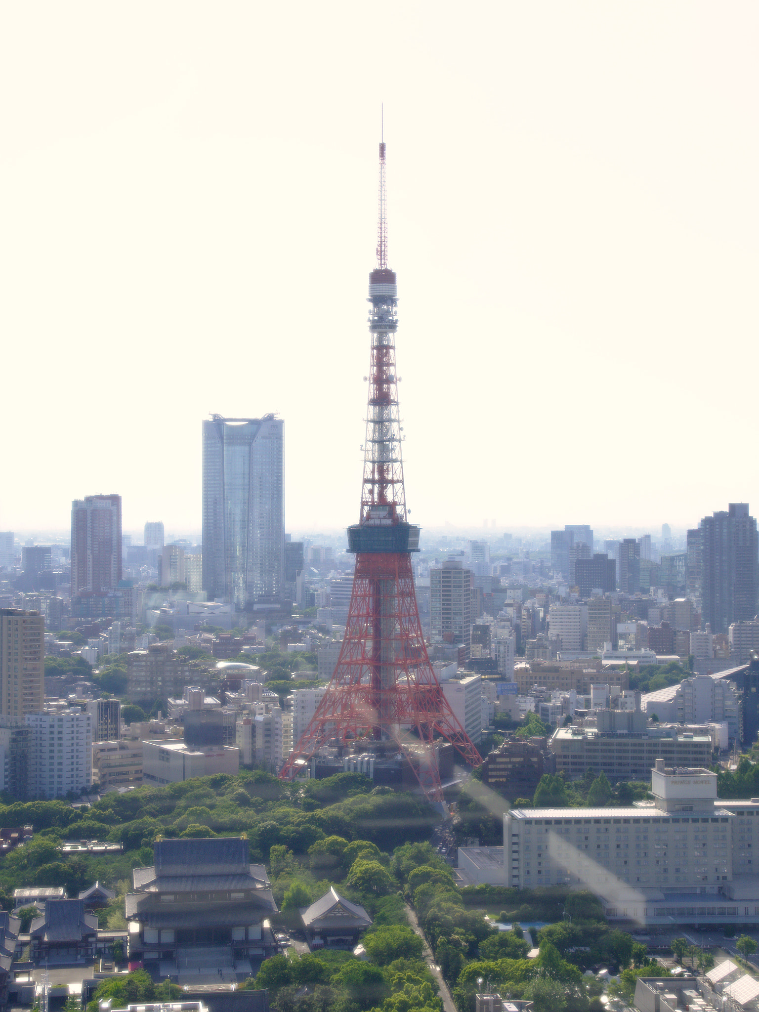 500px provided description: Tokyo Tower [#city ,#tower ,#architecture ,#cityscape ,#japan ,#skyline ,#building exterior ,#famous place ,#international landmark]